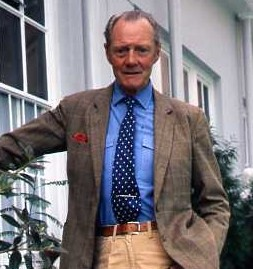 The 8th Duke of Wellington by his swimming pool at his seat Stratfield Saye House